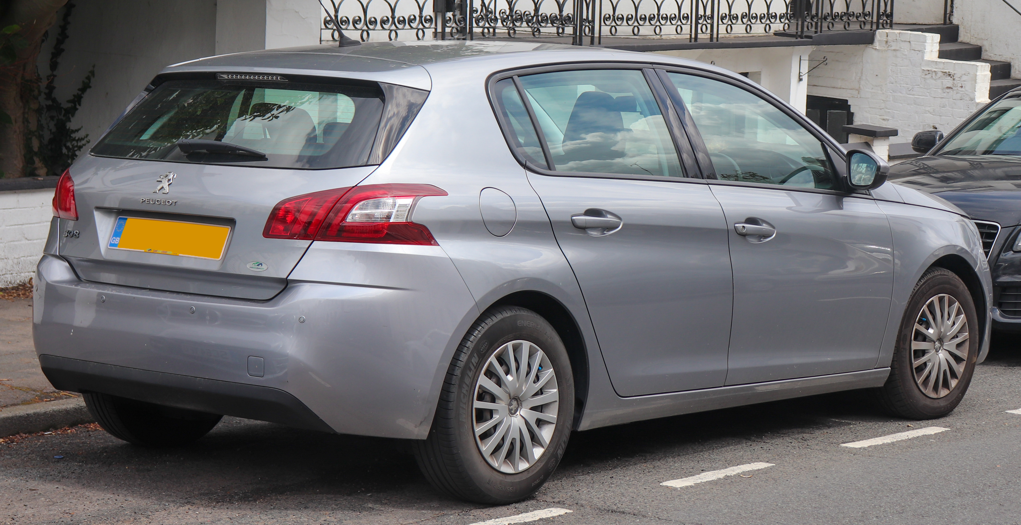 2014 Peugeot 308 Access HDi 1.6 Rear Taken in Leamington Spa